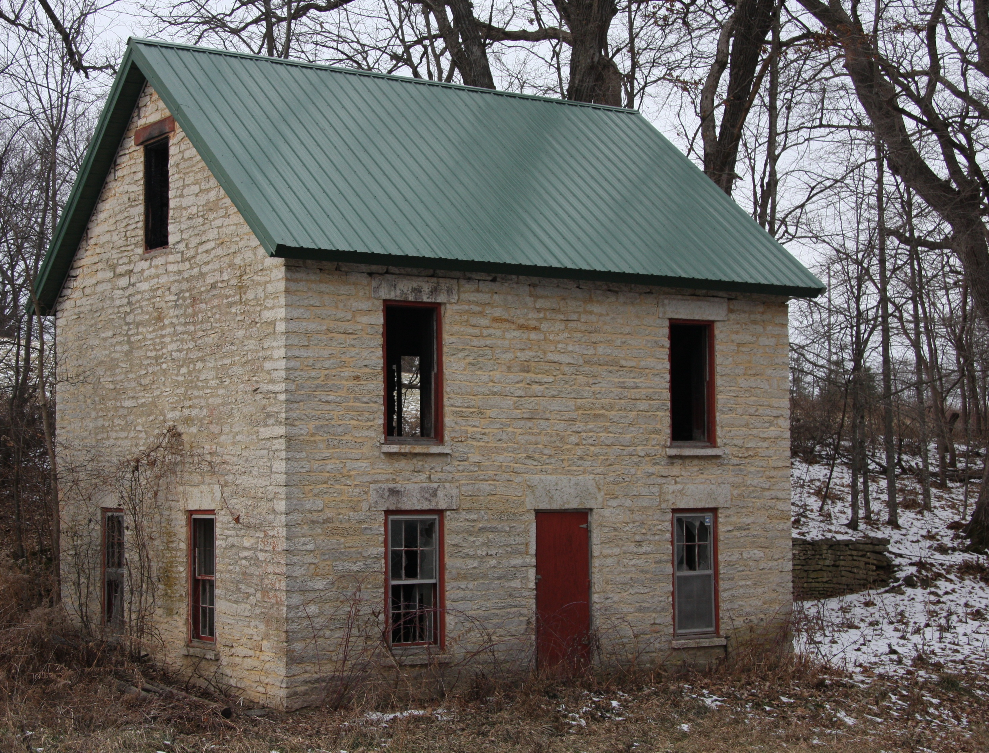 Daniel Dayton House on the old stagecoach trail south of Preston in Fillmore County, Minnesota